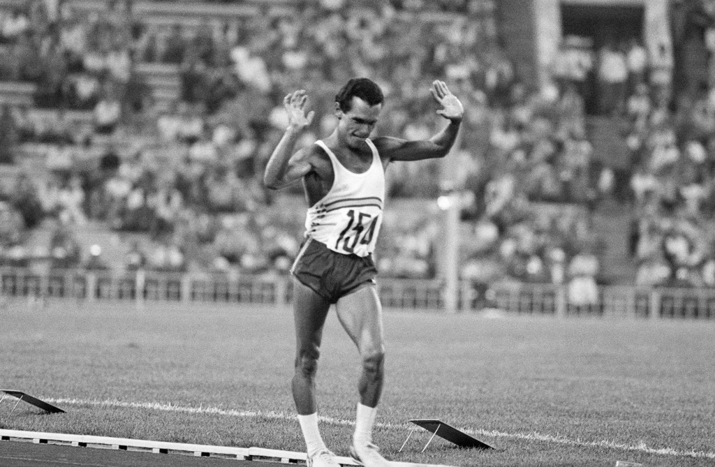 “Athlete Jordi Llopart, finishing”. Silver medalist of the 1980 Olympiad in 50km race walk Jordi Llopart, Spain, finishing. Athletics. XXII Summer Olympic Games. Central Lenin Stadium (currently, Luzhniki).